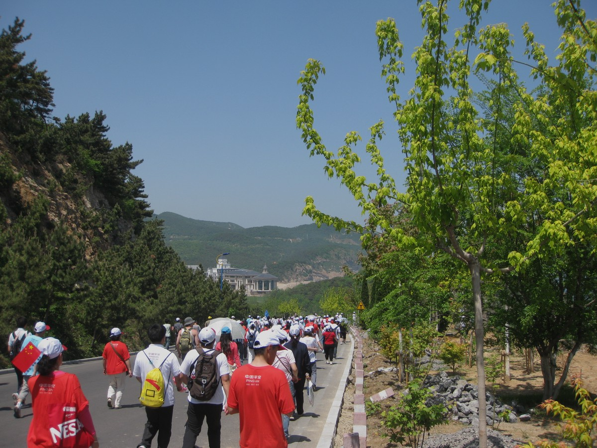 A glipmse of Dalian International Walking in 2009